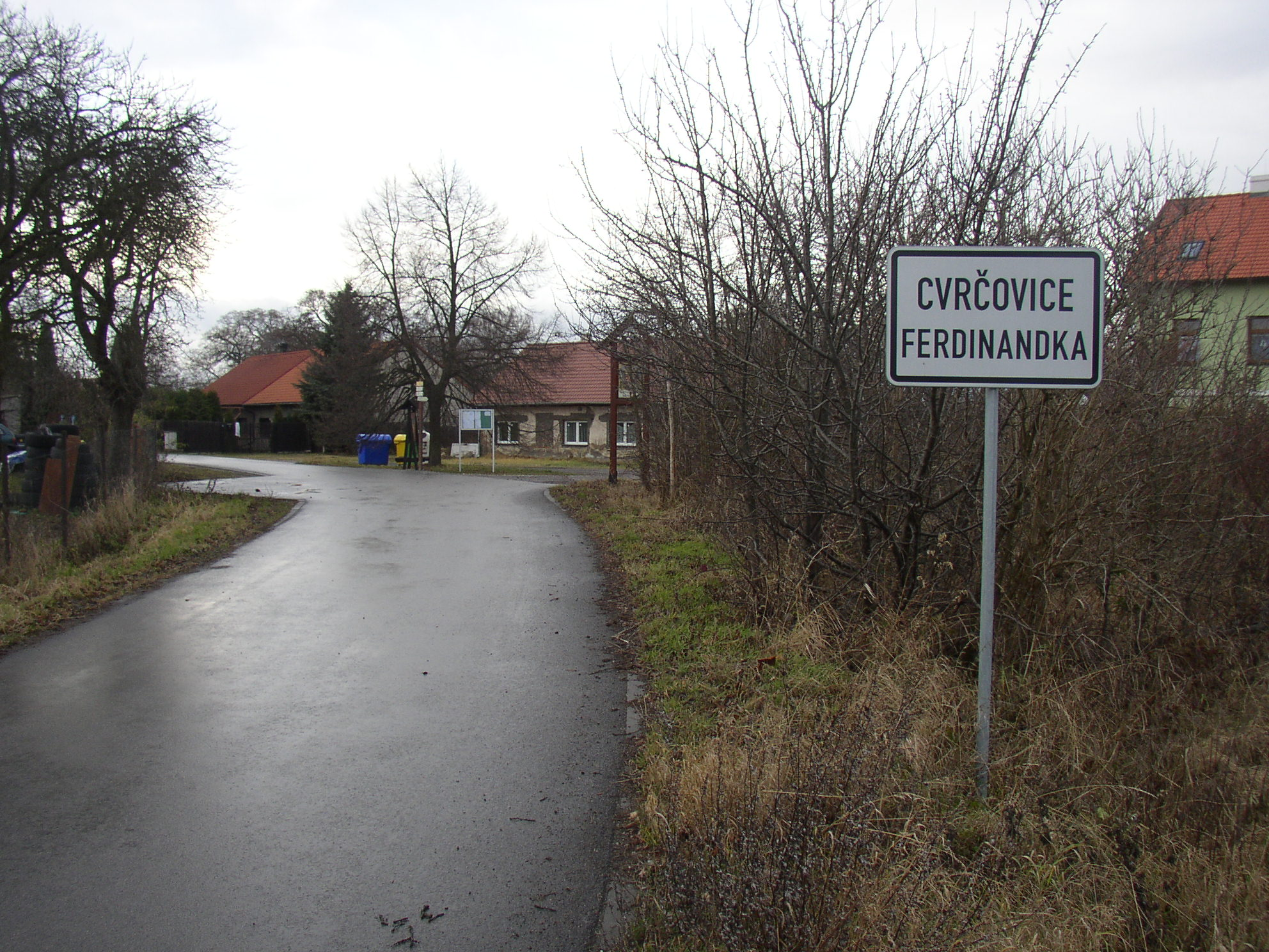 Ferdinandka, part of Cvrčovice municipality, Kladno District, Central Bohemian Region, Czech Republic. Arrival to the hamlet from SE.